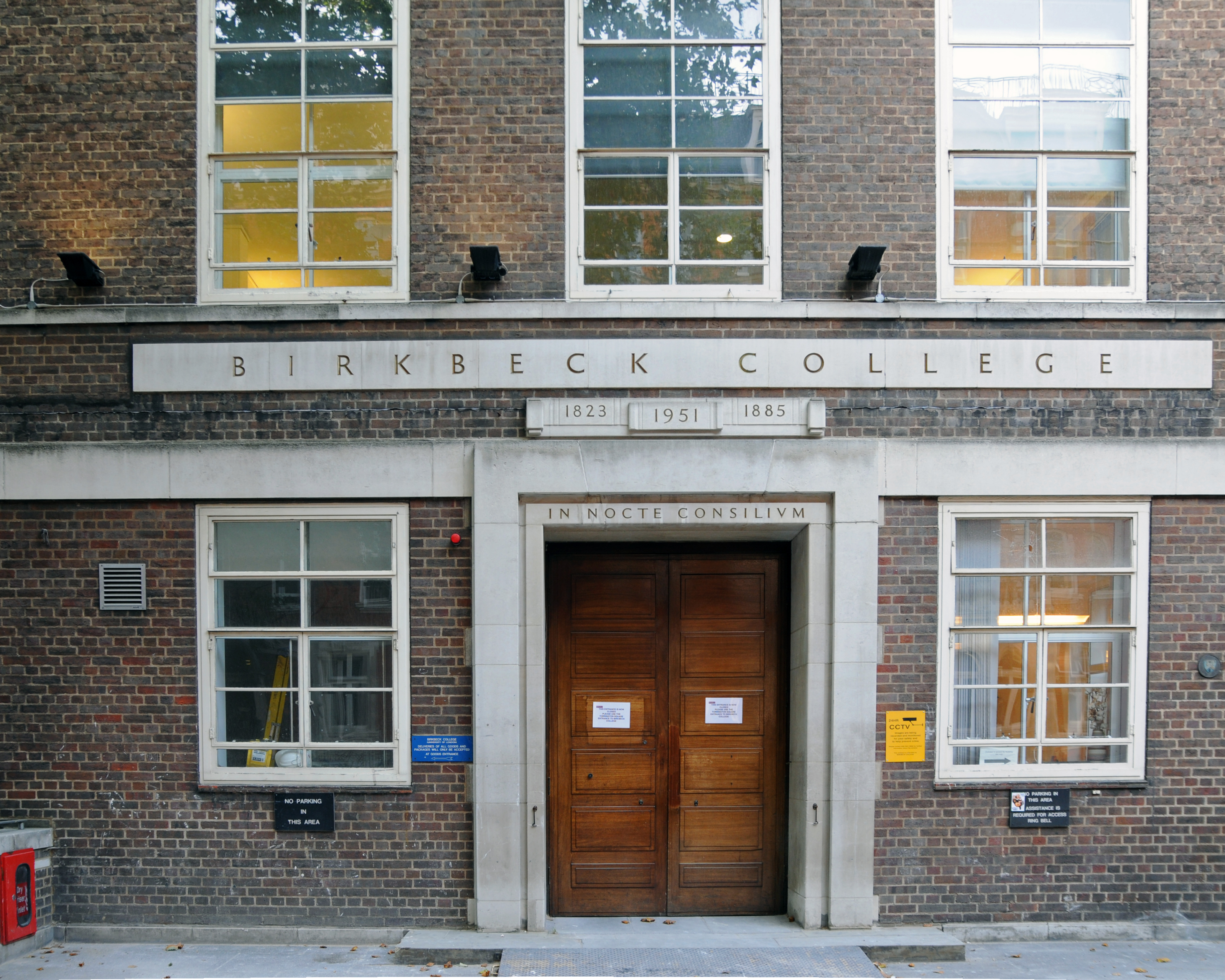 Birkbeck College, part of the University of London.